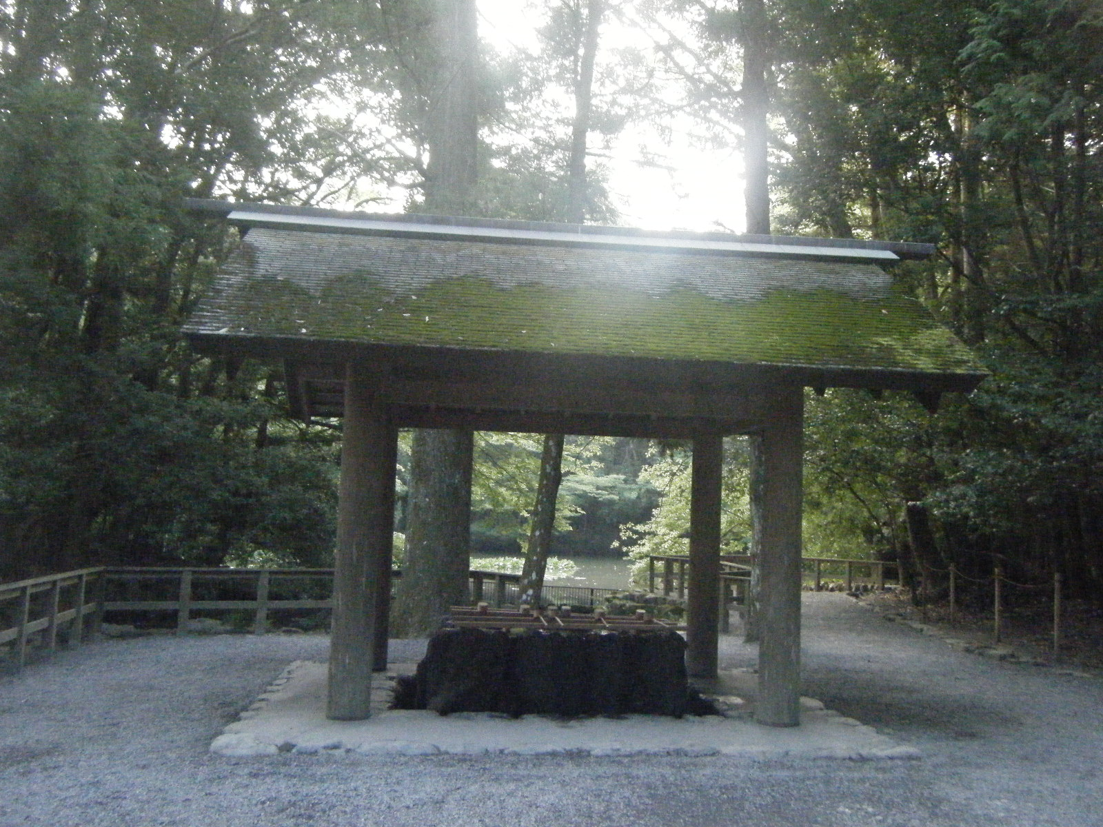 Kōtai-jingū (Naiku) at Ise city, Mie prefecture, Japan.